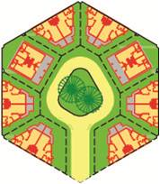 plan of a small courtyard neighbourhood